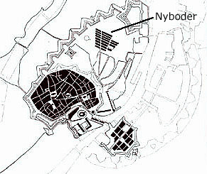 Location of Nyboder, shown on old Copenhagen map from 1650.